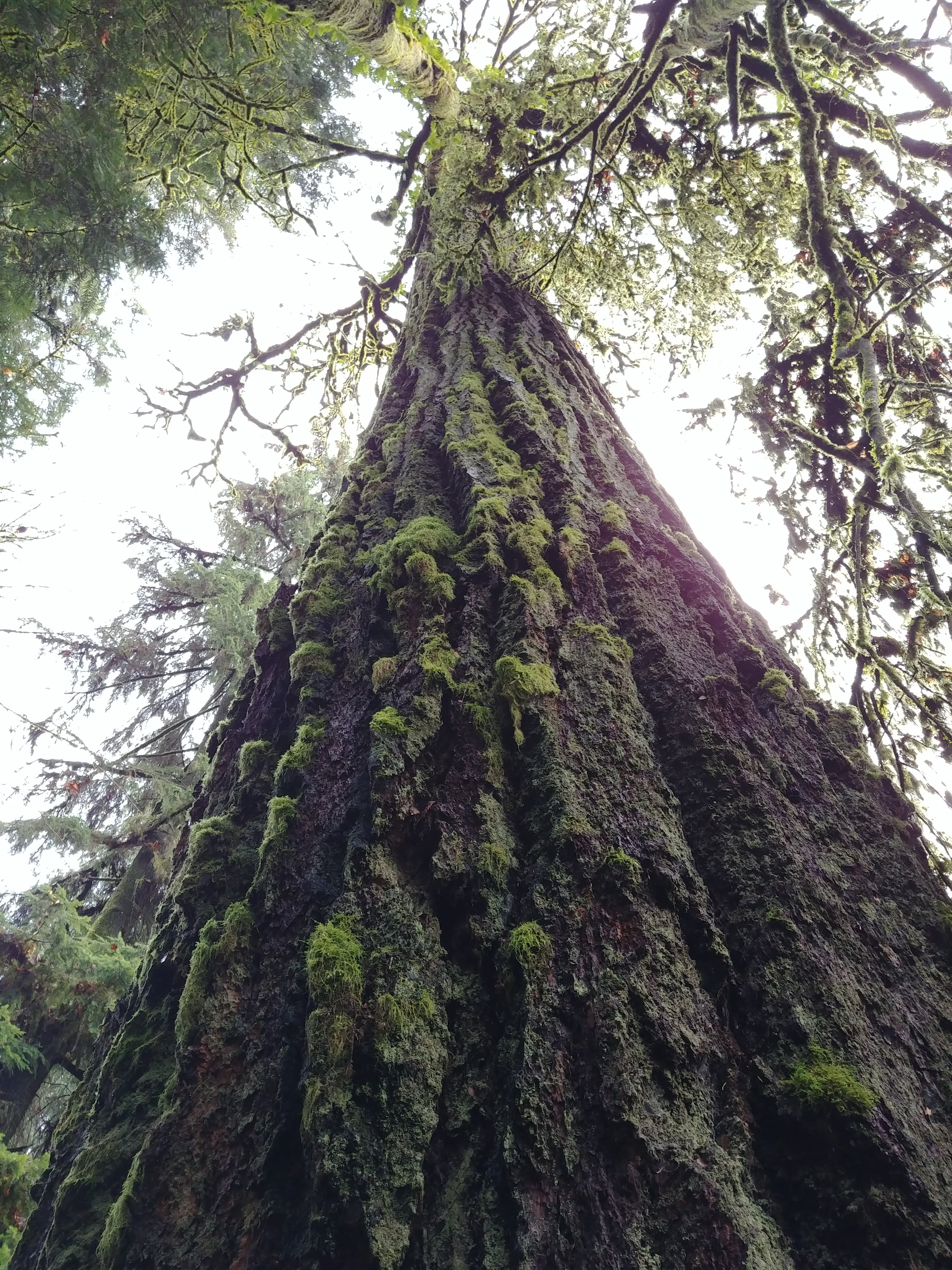 Sylvia is a record-setting Douglas fir in O.O. Denny Park, Kirkland, Washington, near the eastern shore of Lake Washington.